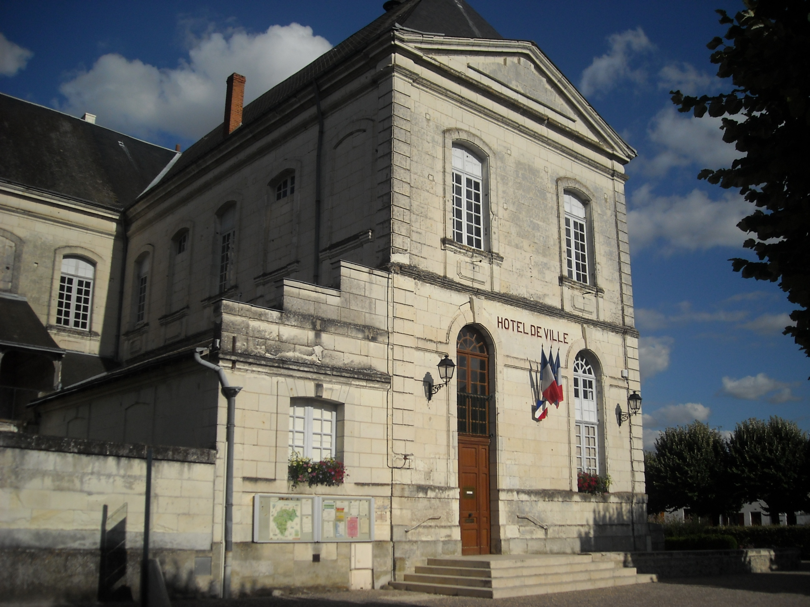 City Hall in Beaulieu lès Loches (France)